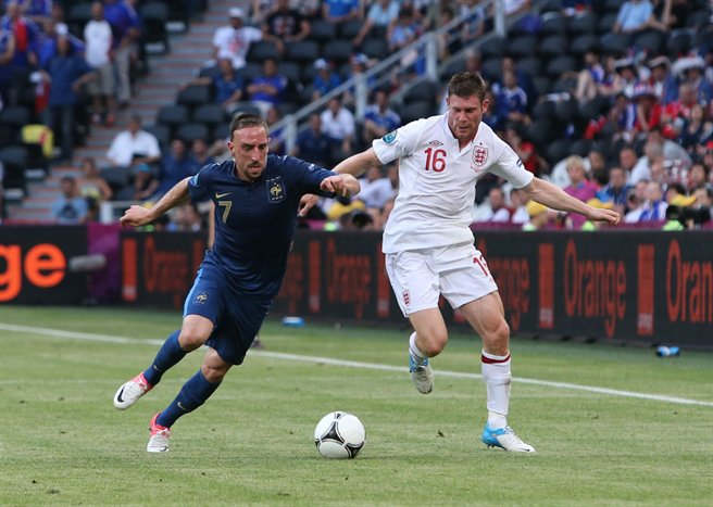 UEFA Euro 2012 match between France and England played in Donetsk at Donbas Arena. Final result was 1:1 (Nasri, Lescott).